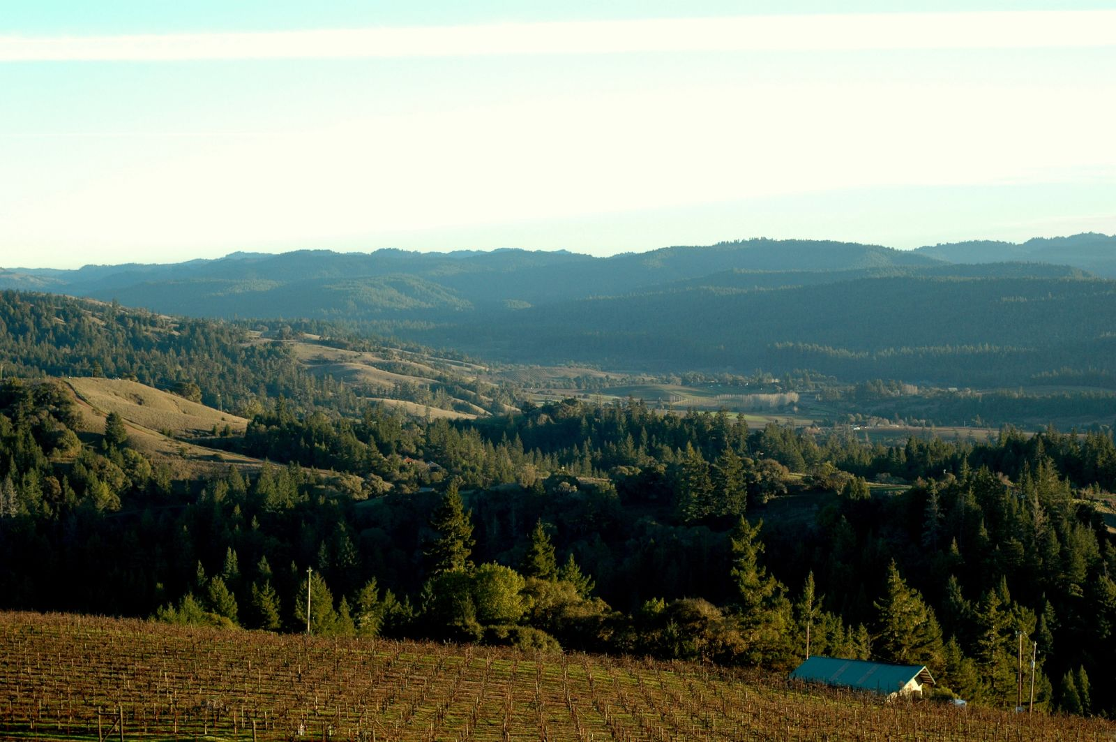 View from Esterlina Winery of the California wine region of the Anderson Valley.